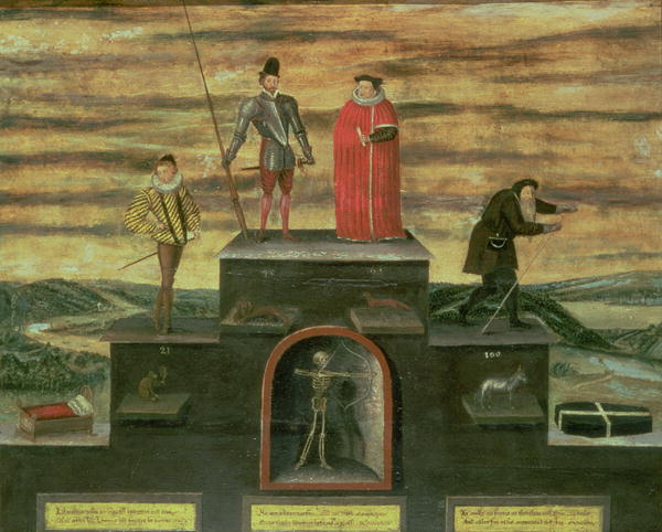 Ages of Man, late 16th century